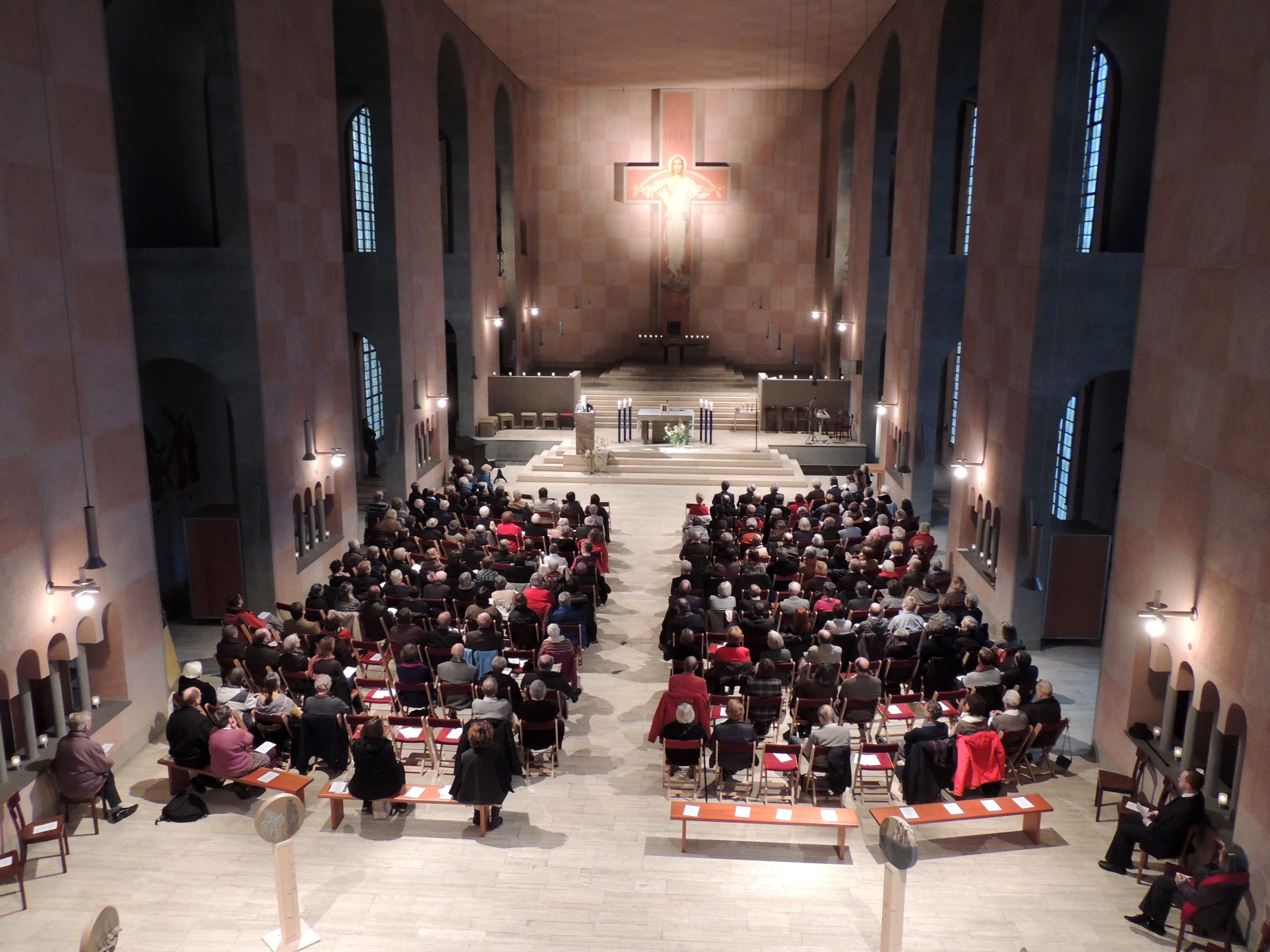 Interior of the Holy Cross Church in Frankfurt am Main-Bornheim